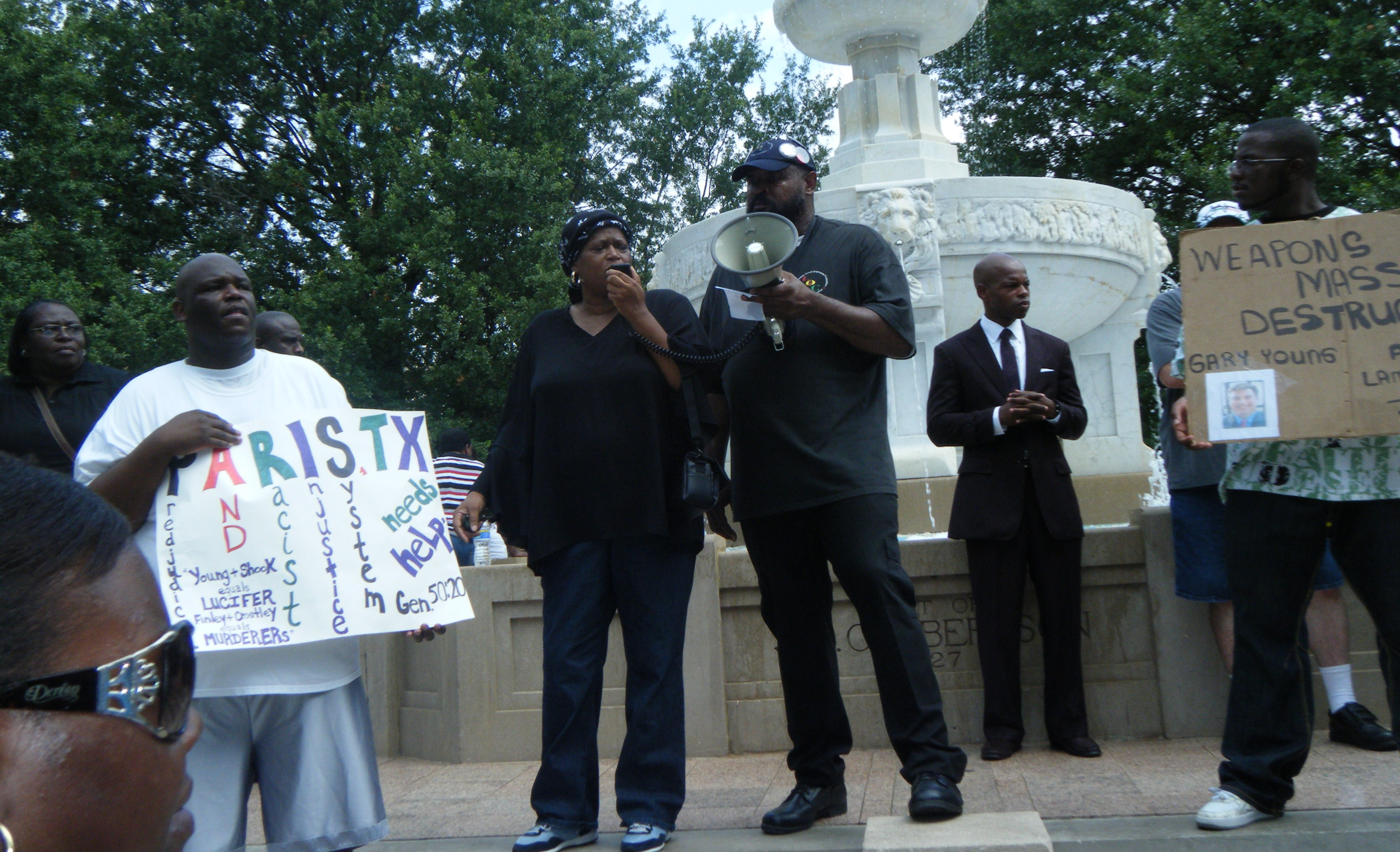 Brenda Cherry and Jim Blackwell protesting in Paris, Texas